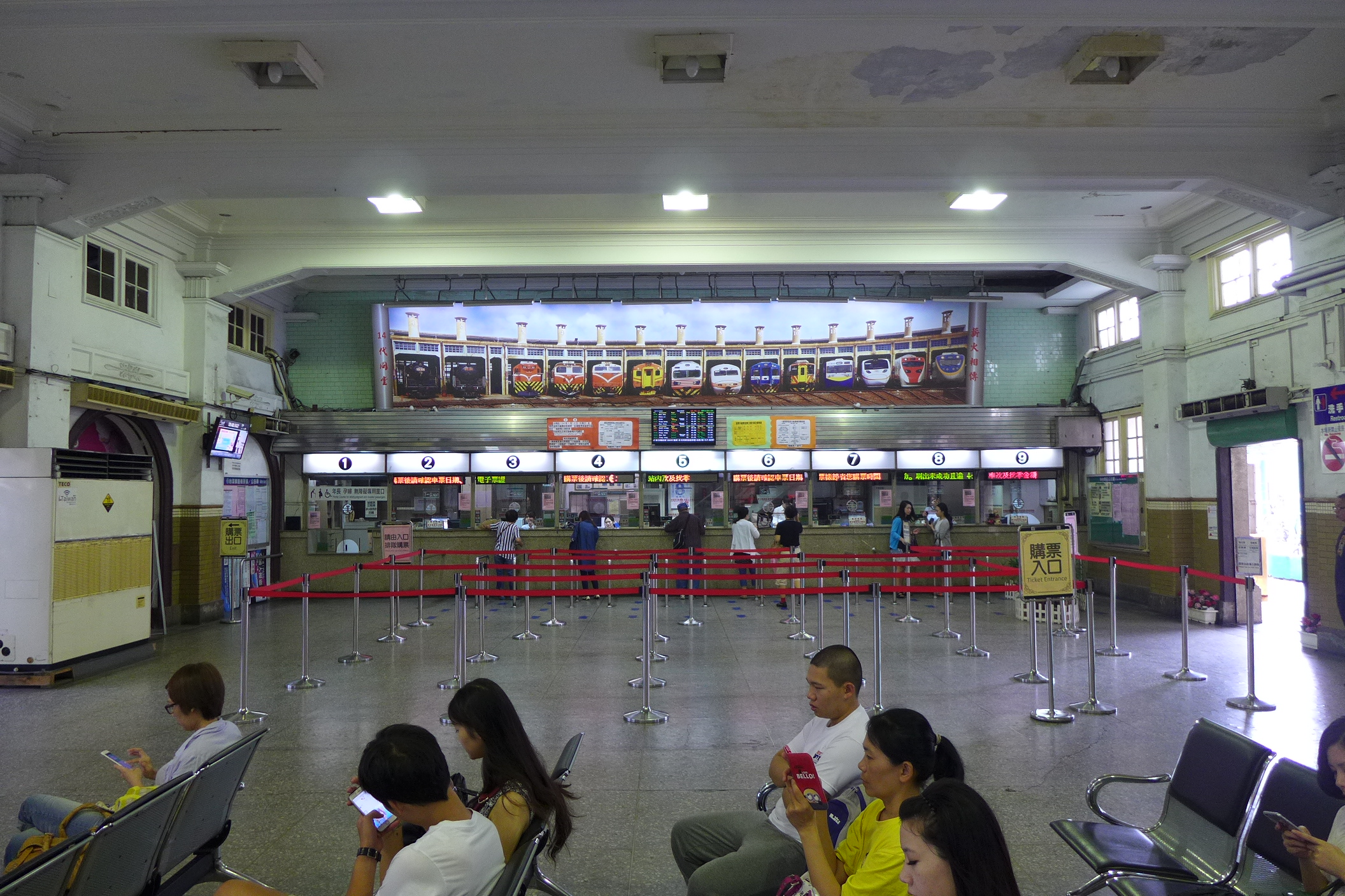 Tainan Station Ticket Office